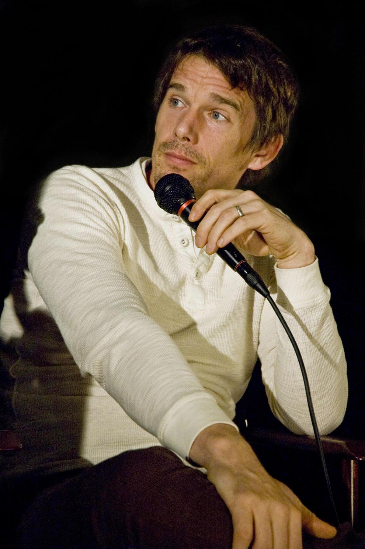 Ethan Hawke at a screening for "What Doesn't Kill You"